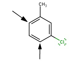 it is too crowded to do an electrophilic substitution on the 2-position